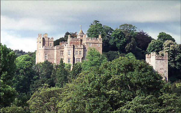 Photograph